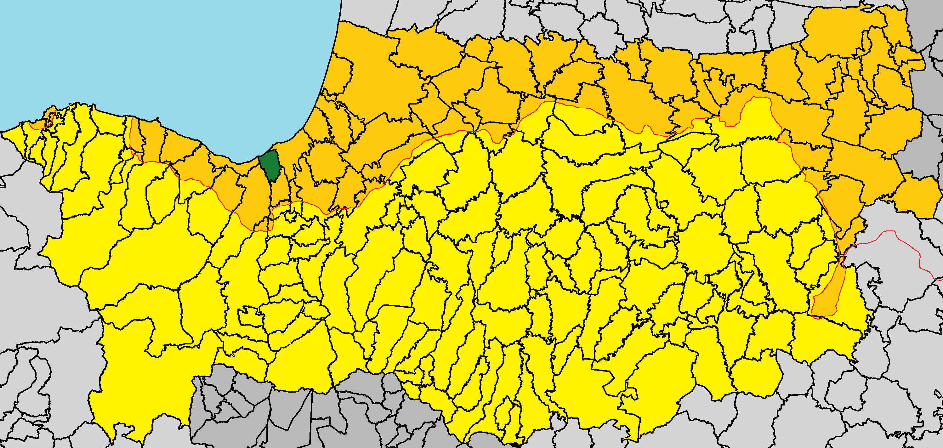 Peristeronari in Nicosia District (de jure).